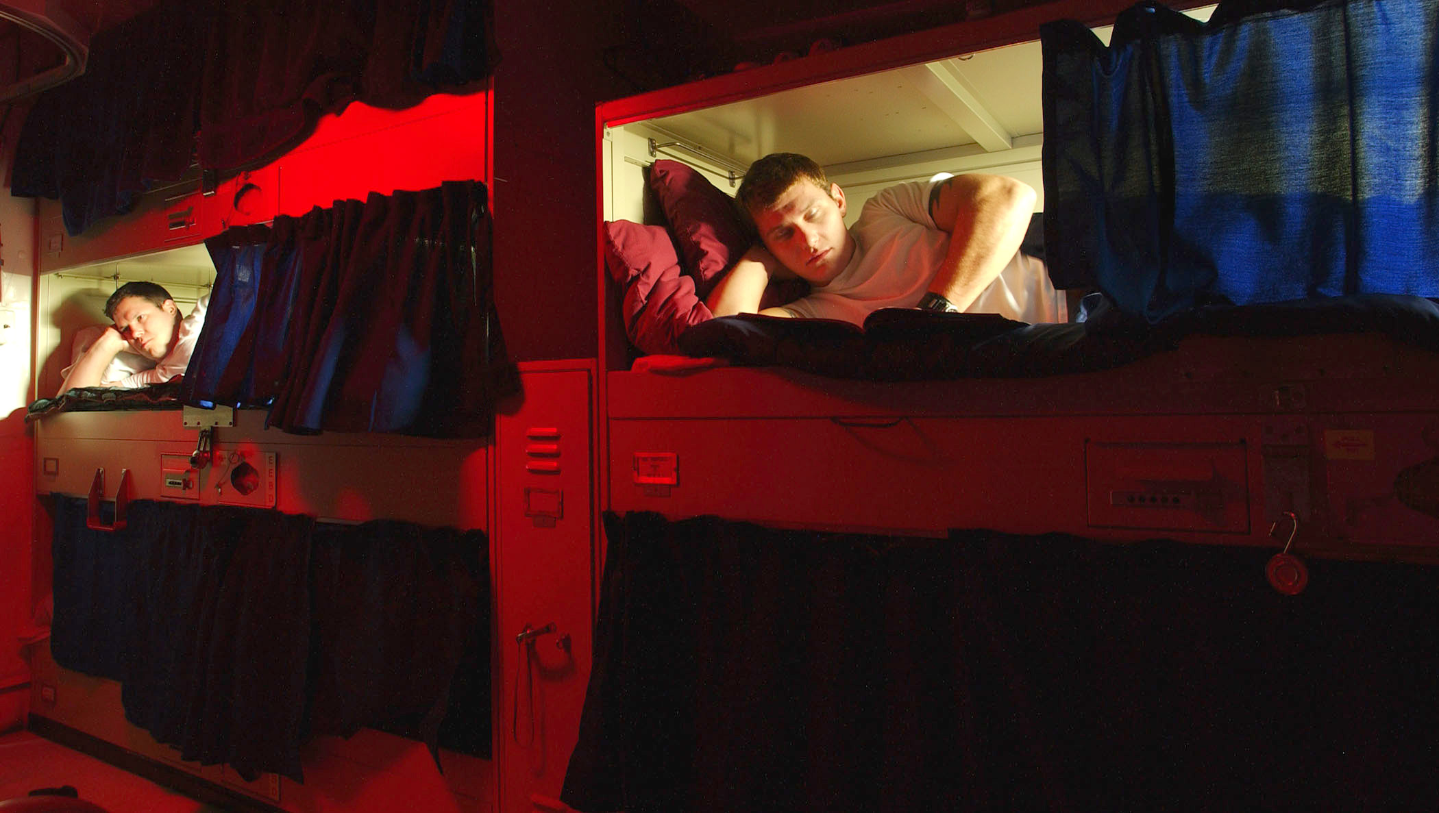 031112-N-9769P-020 Pacific Ocean -- Sailors relax in their bunks aboard USS John C. Stennis (CVN 74). The Stennis Carrier Strike Group and embarked Carrier Air Wing Fourteen (CVW-14) are at sea conducting Composite Training Unit Exercise (COMPTUEX) in preparation for an upcoming deployment.